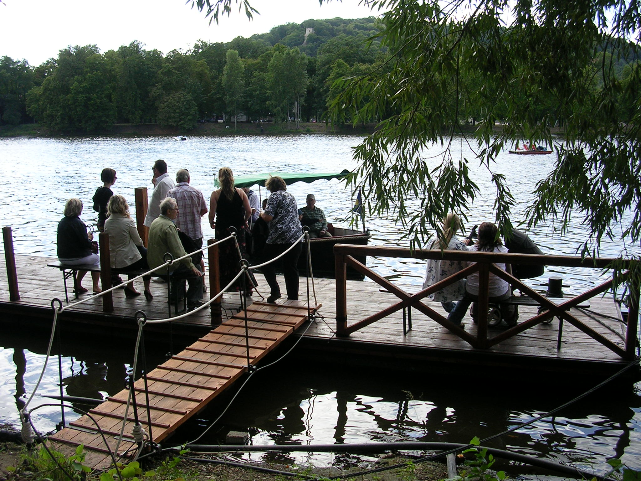 Ferry P4, Prague, the Czech Republic.